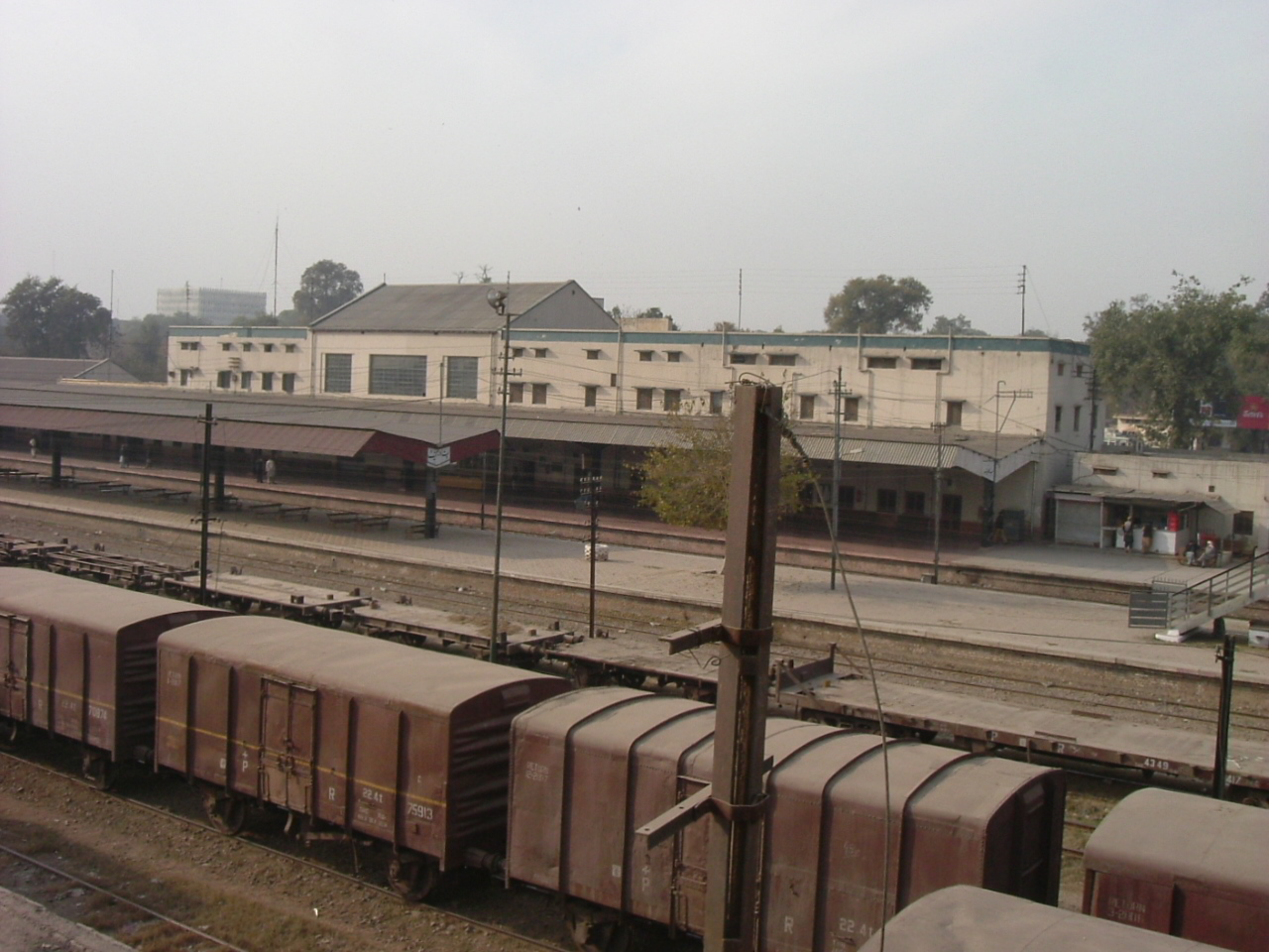 Peshawar station from the footbridge